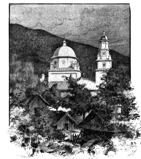 Lipovan Uspenia Monastery (near Slava Rusa) in the early 20th century. Drawing by R. Canisius